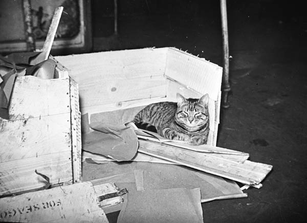 Reproduction ID: AD21173 Maker: Unknown Date: 1940s This photograph is featured in Arctic Convoys, a new photographic exhibition looking at the experiences of those who served on the Arctic Convoys. It's on at the National Maritime Museum until 4 November 2012